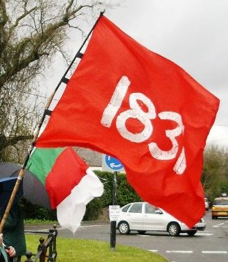 The red flag, with 1831 written on it, the date of the Merthyr Rising, flown at Merthyr in 2012. Below it is the flag of the Welsh Republic.